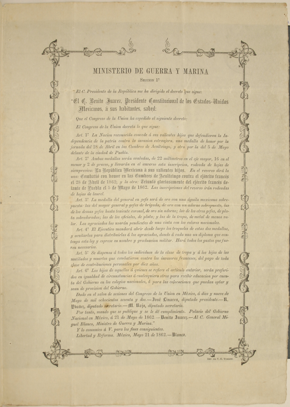 Decreto del Presidente Benito Juárez, por medio del cuál se crea y otorga una condecoración a los vencedores de las batallas del 28 de Abril y 5 de Mayo de 1862